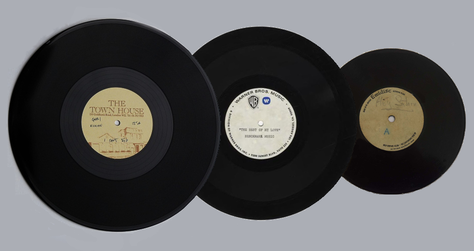 Various acetates in 7", 10", 12" size